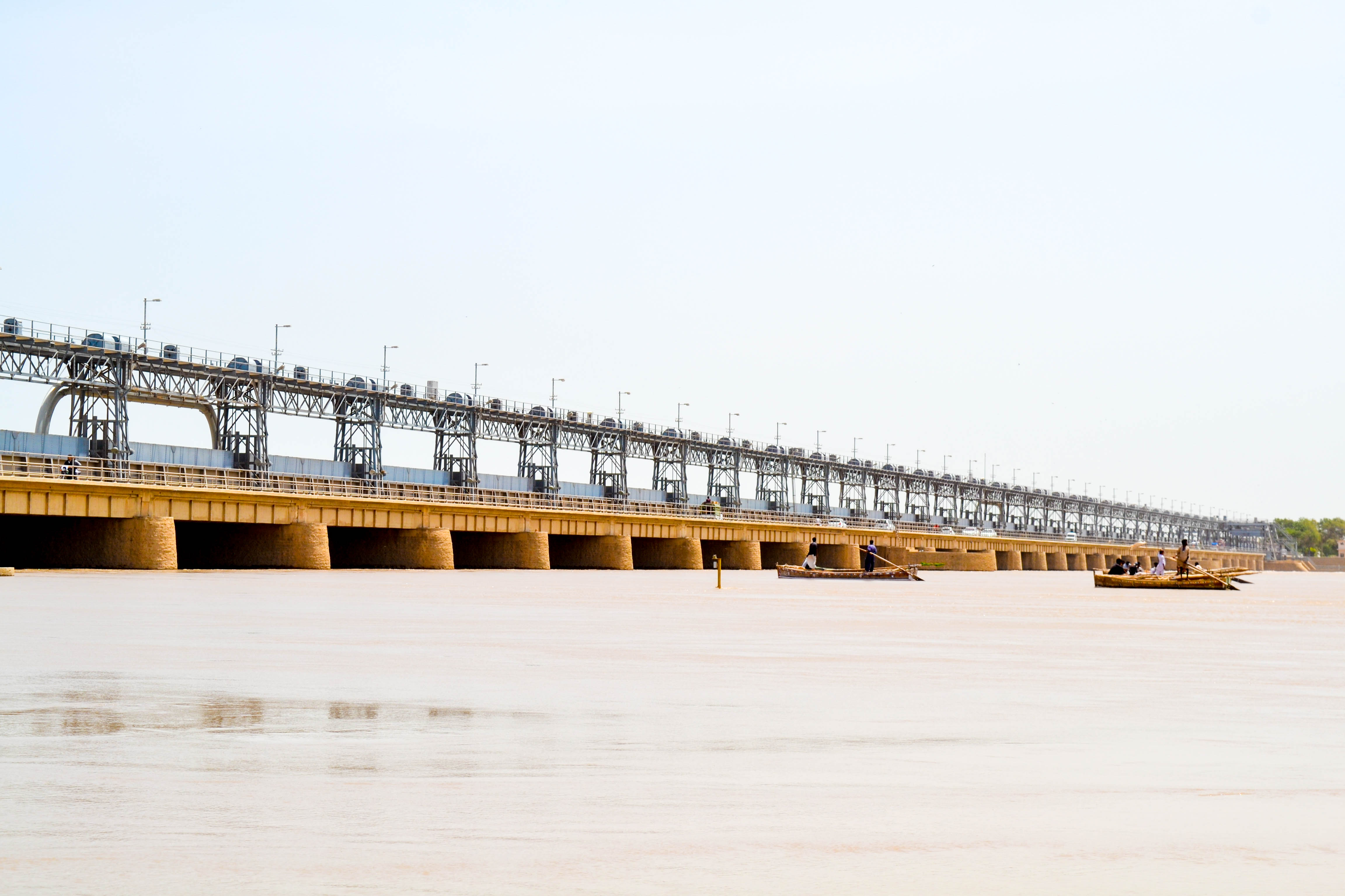 Kotri Barrage at Indus River- Boats of Fisherman